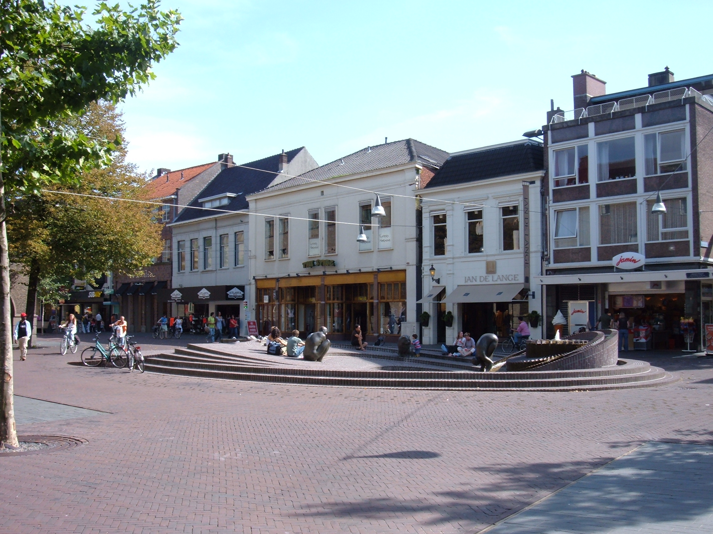 The "Ei van Ko" ("Ko's Egg") fountain in Enschede